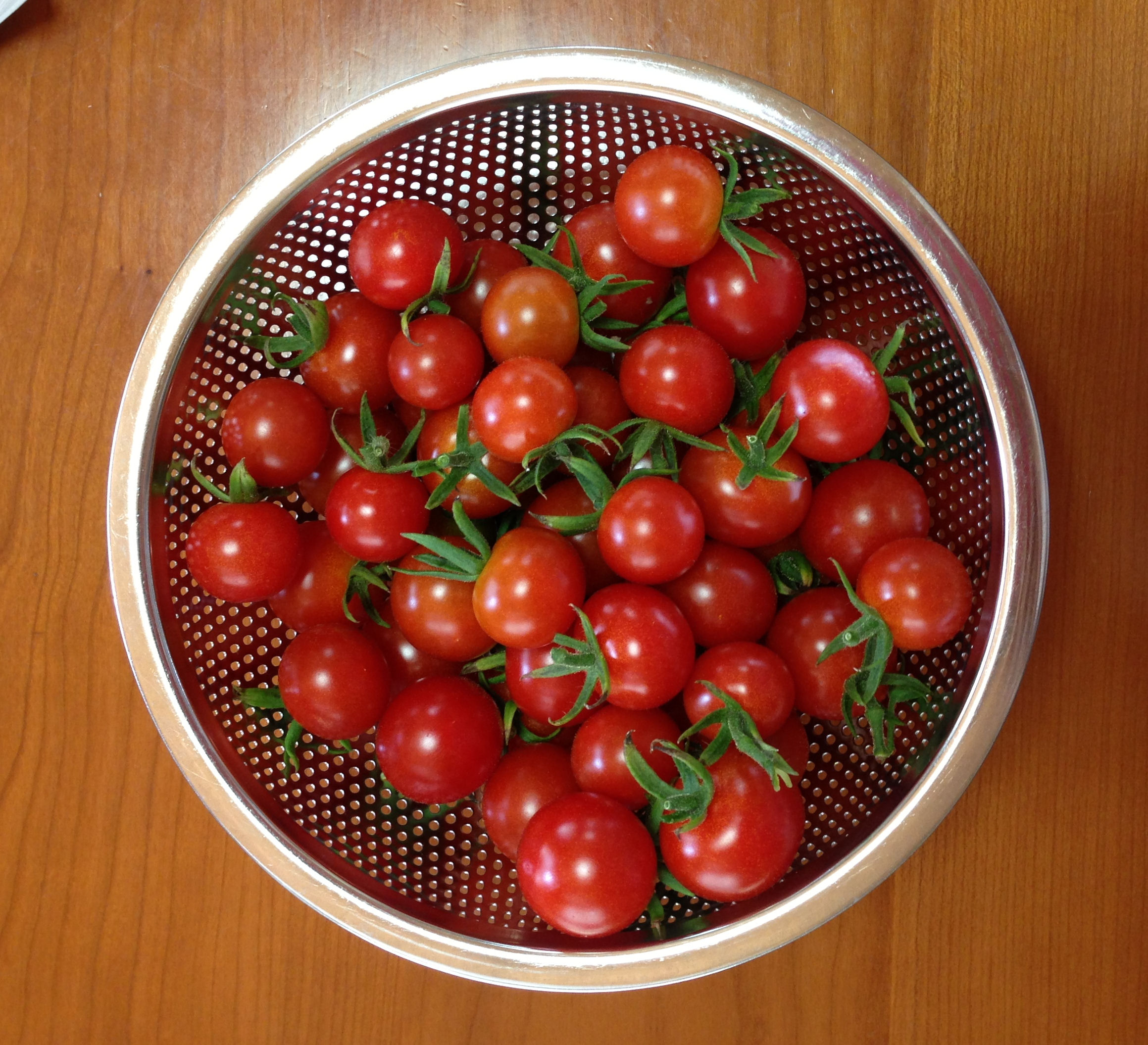 Mini tomatoes in a punching metal bowl